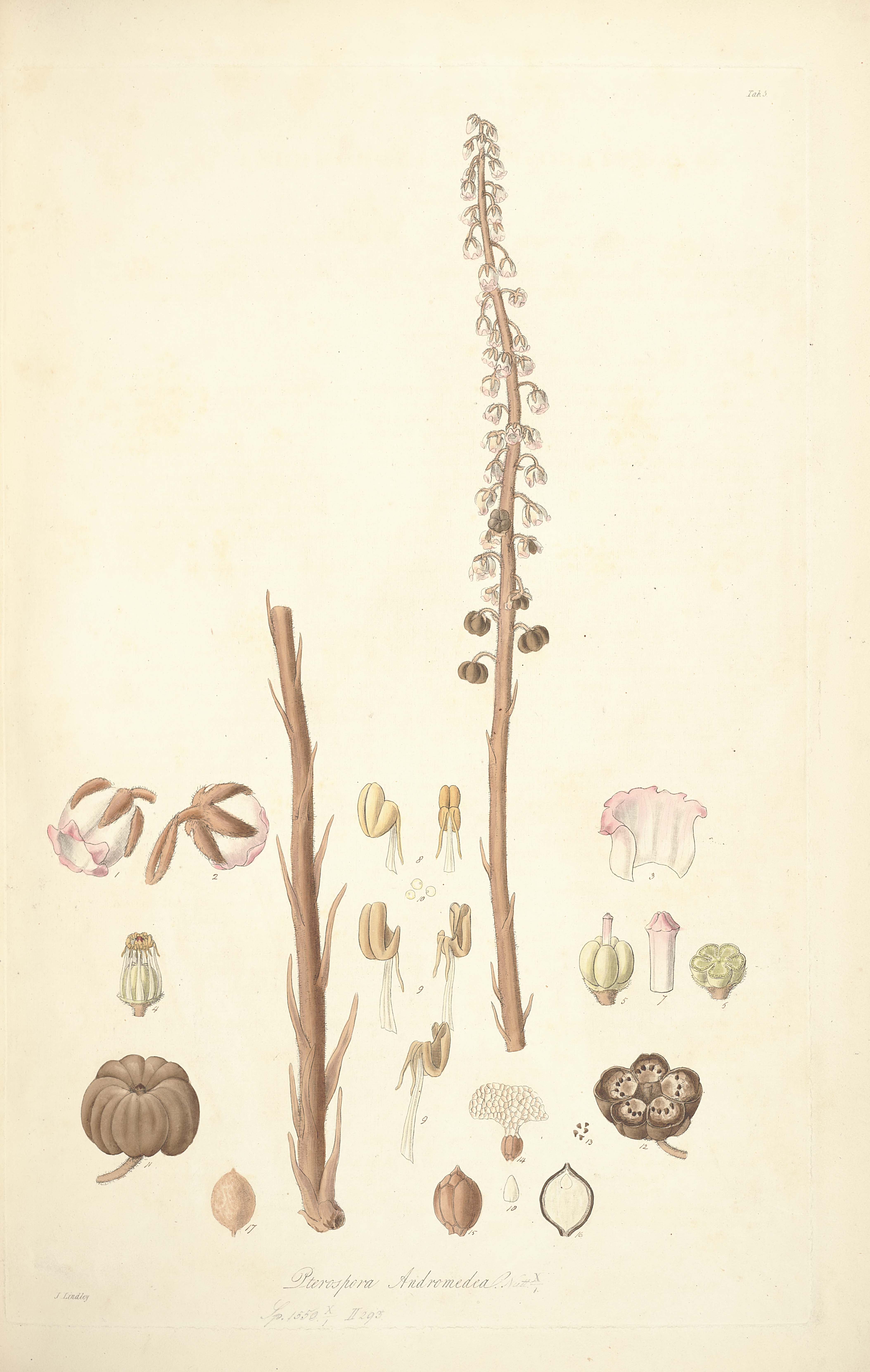 Illustration from John Lindley's "Collectanea botanica or, figures and botanical illustrations of rare and curious exotic plants"